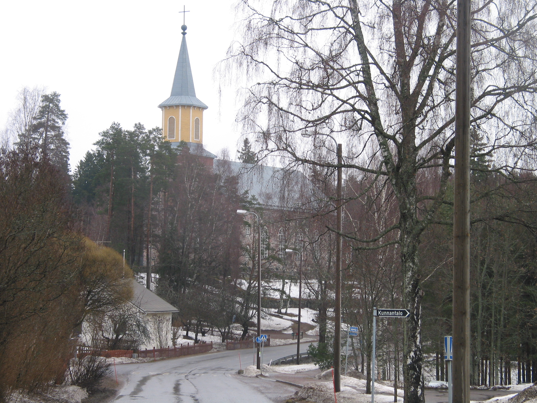 Karjalohja Church, Keskustie (regional road 104), Uusimaa, Finland, April 2010